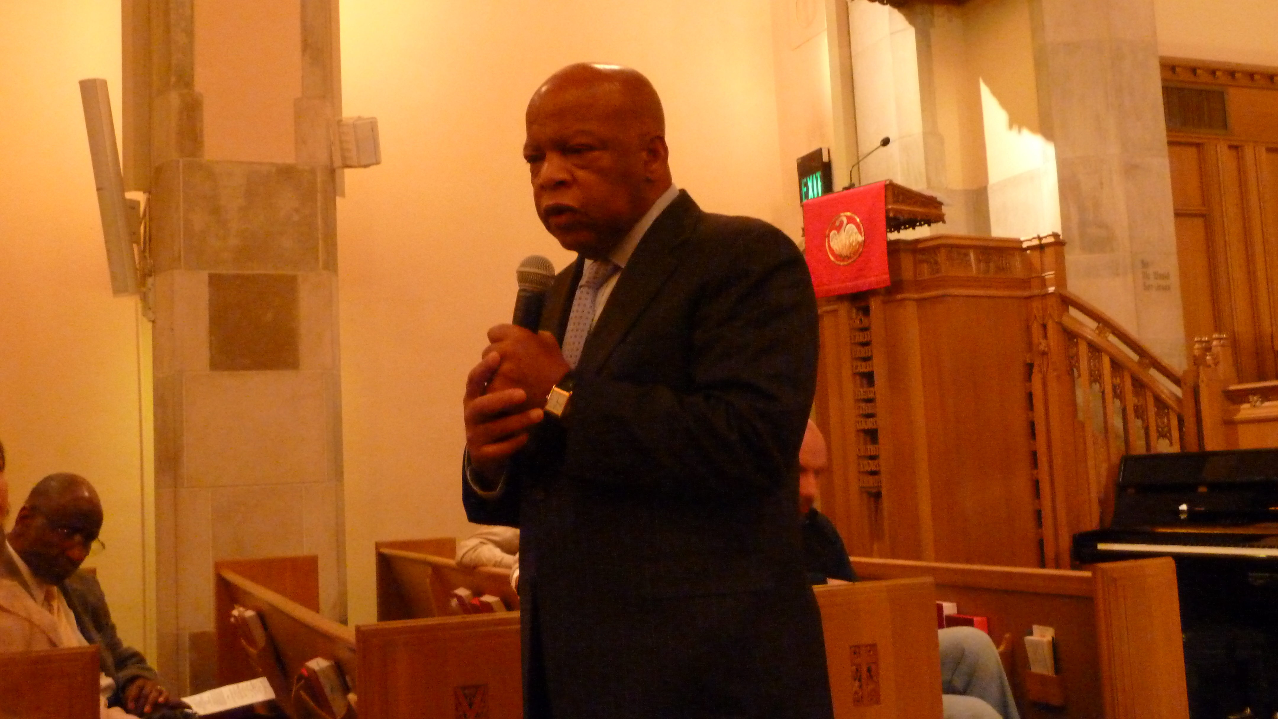 U.S. Representative John Lewis speaking at Martin Luther King, Jr. birthday service at Redeemer Lutheran Church in Atlanta Georgia